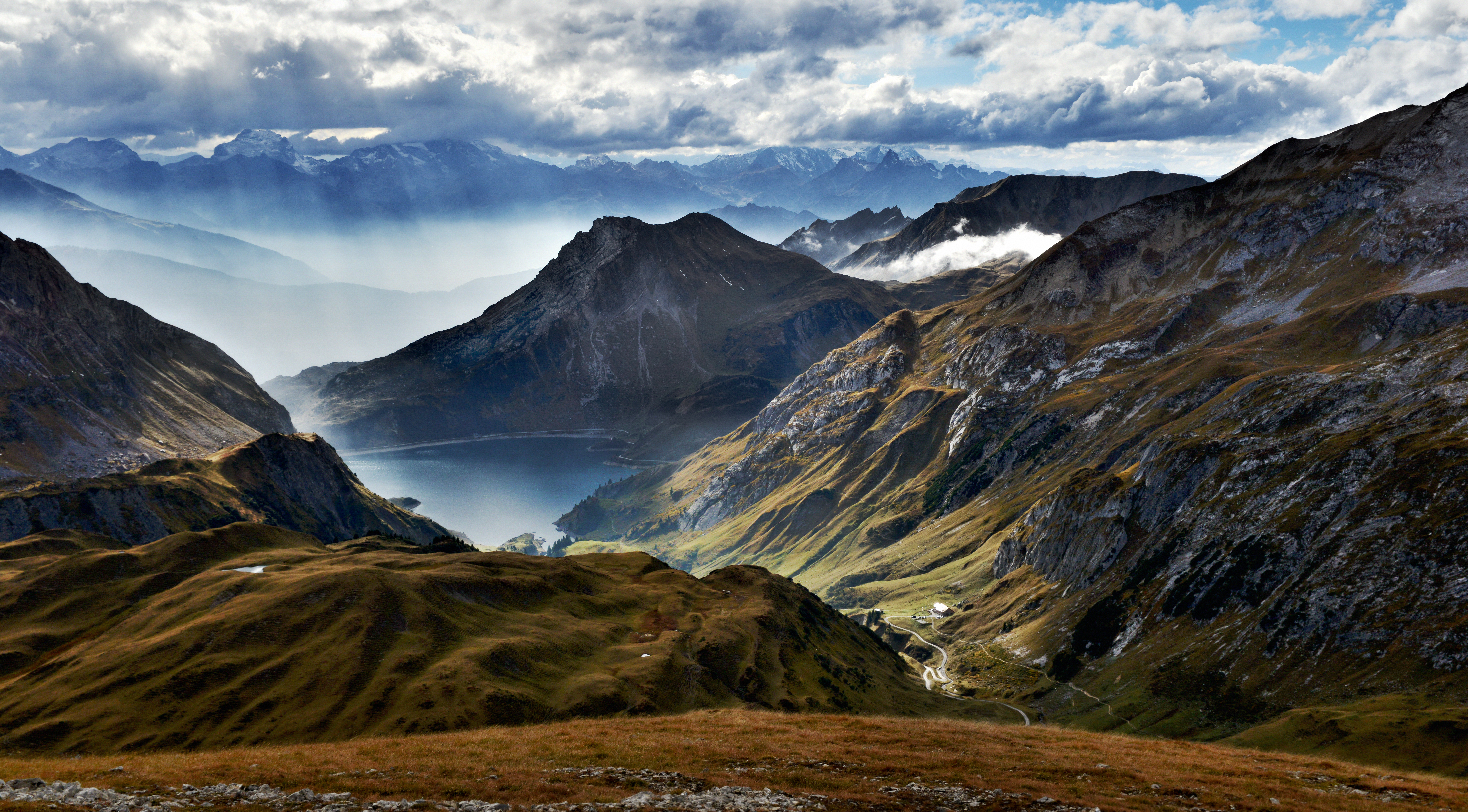 The 'Spullersee' is a lake in the municipality of Dalaas in the high mountains of Vorarlberg. It was created between 1919 and 1925 by Austrian Federal Railways during the electrification of the Arlbergbahn railway to power the line. On the right is the Ravensburger hut, a German Alpine Association mountain hut.